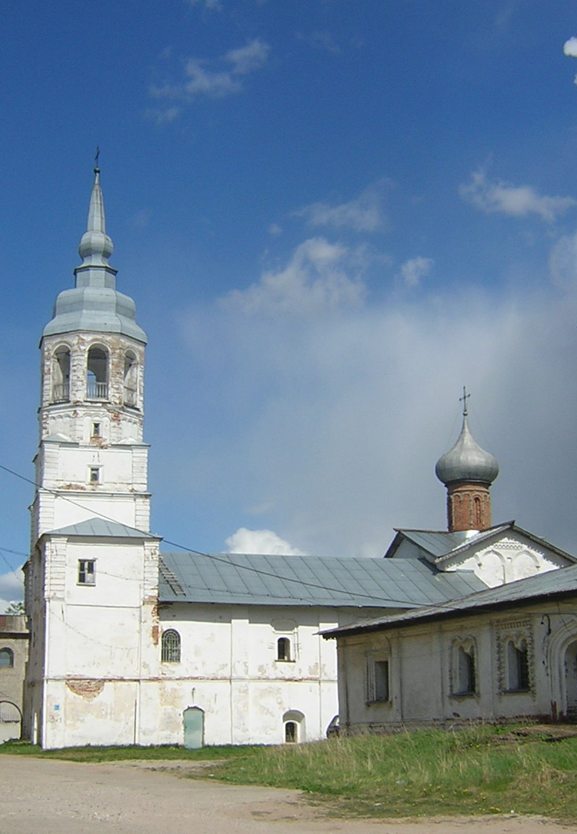 Bell tower with church of Assumption in Derevianitsky monastery. Velikiy Novgorod